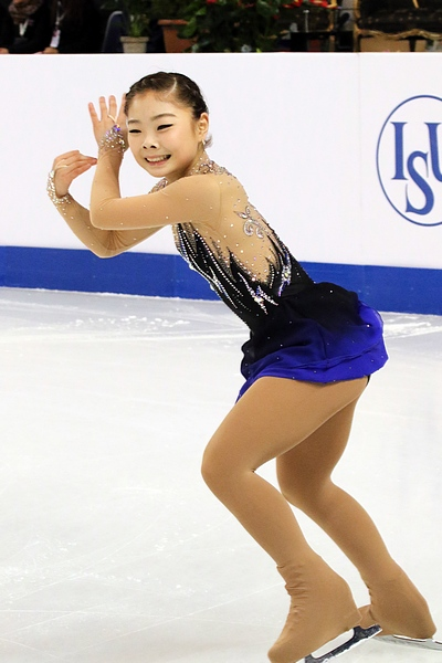 Photos – Junior World Championships 2016 – Ladies (Ha Nul KIM KOR – 9th Place)